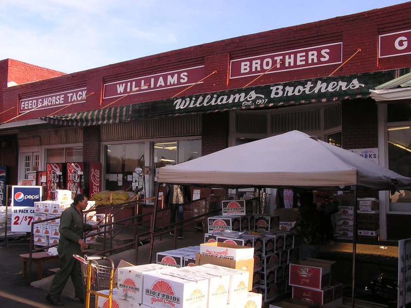 Williams Brothers General Store, Philadelphia, Mississippi, December 2010.